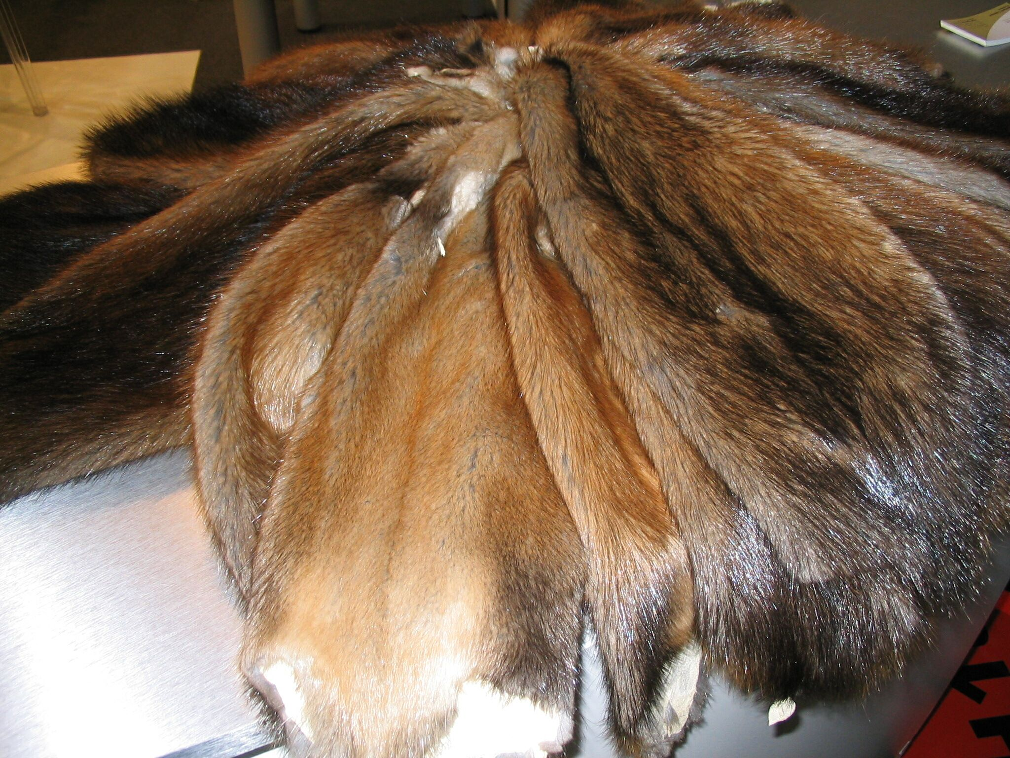 Muskrat fur-skins (Europe)